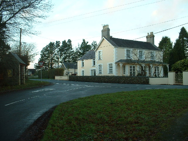 Rhos-Fawr.